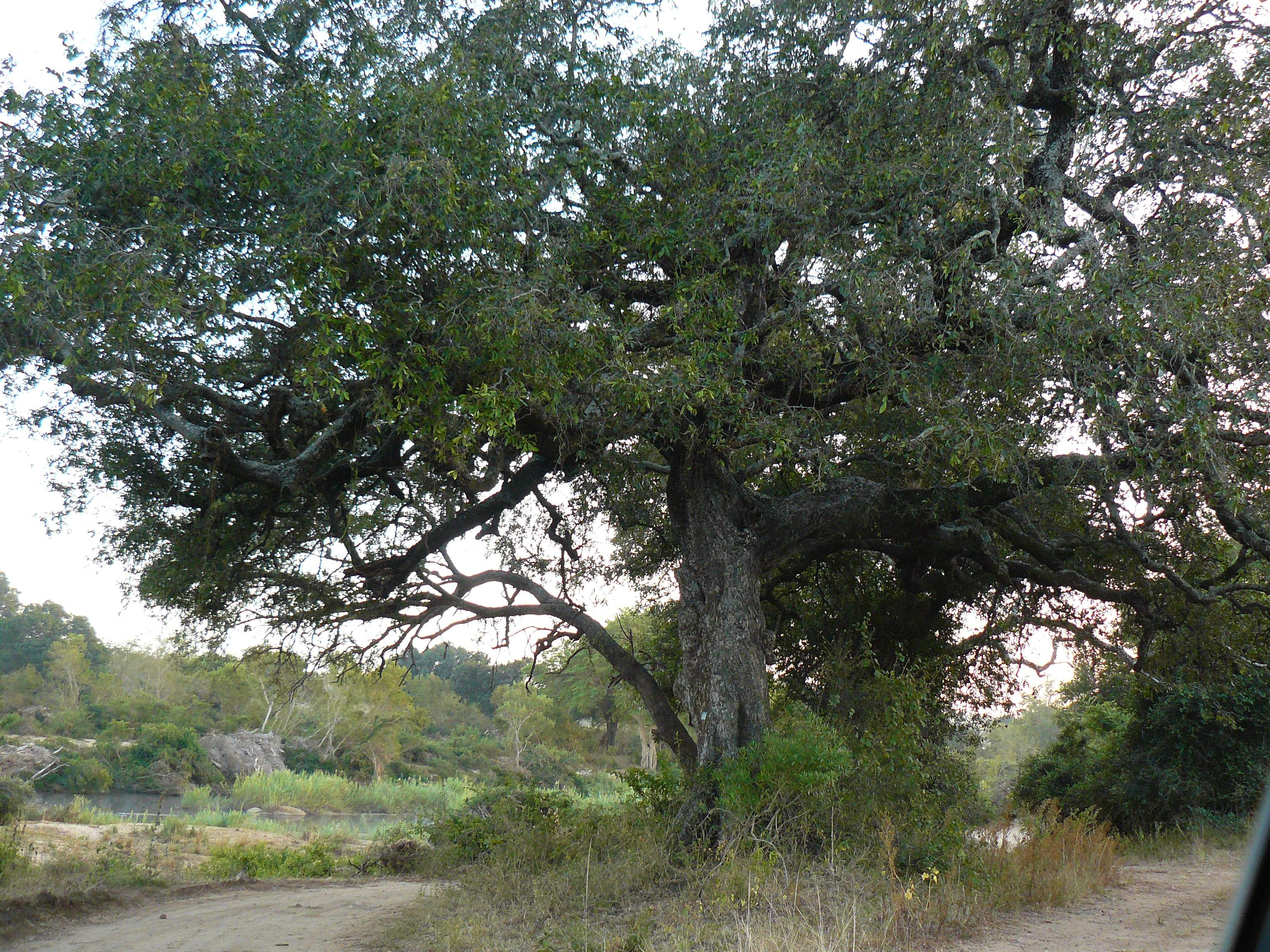 A jackalberry on the bank of the Sabie River in the southern Kruger National Park